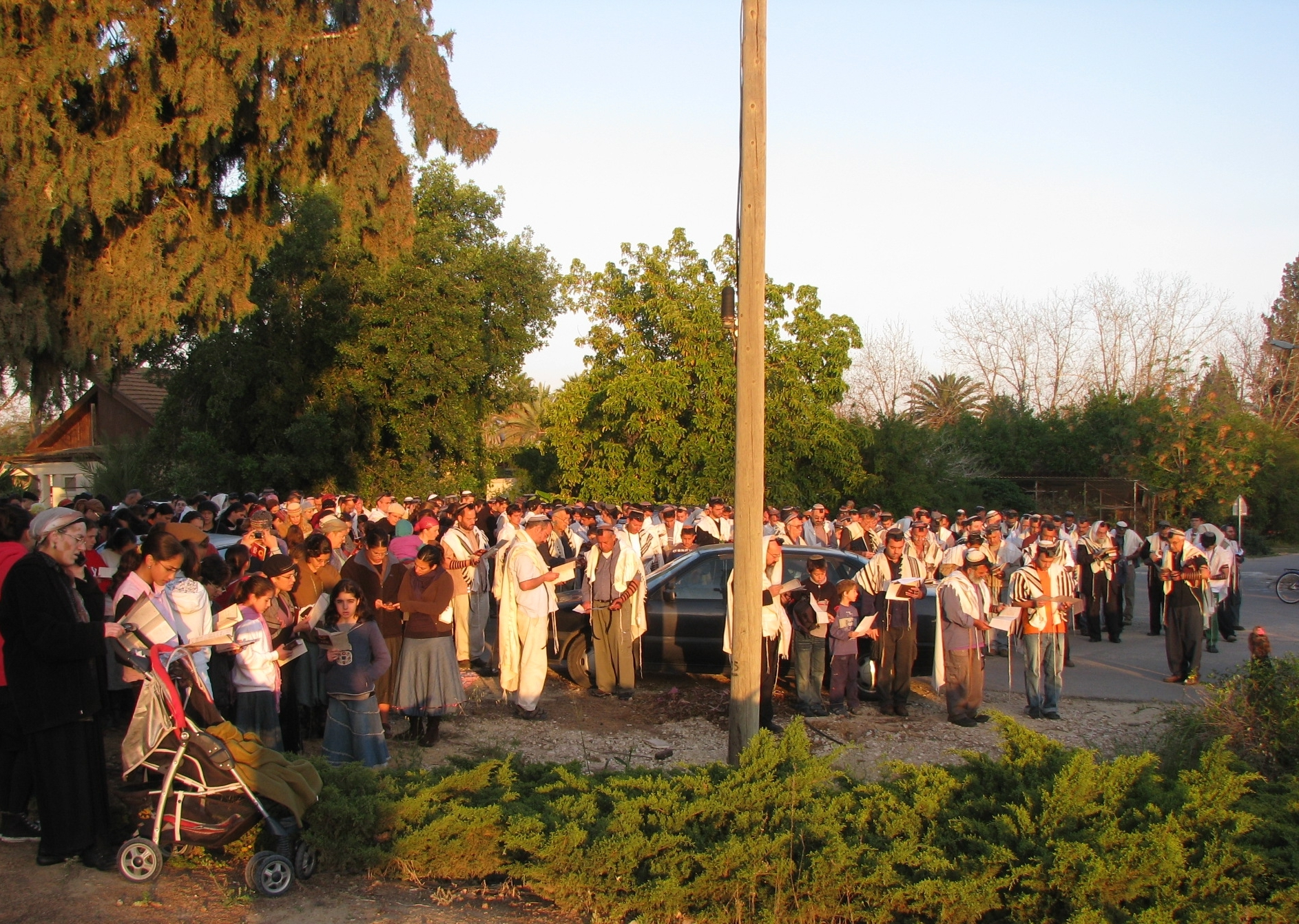 Residents of Kfar Maimon, men, women and children got up early in order to say the sun blessing